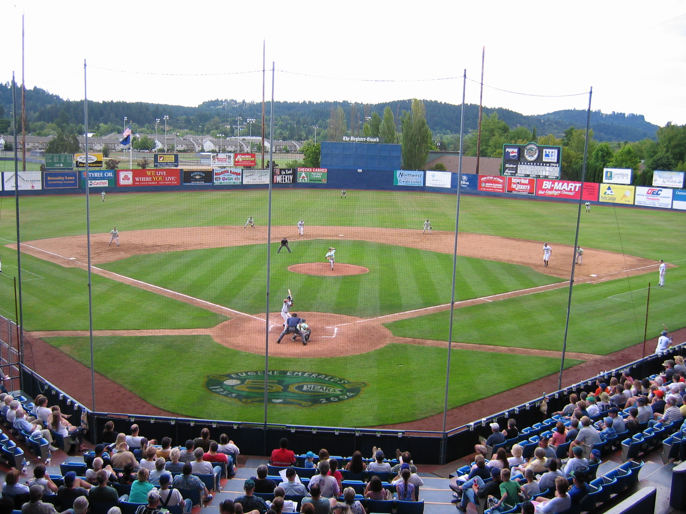 This is a photo taken of Civic Stadium on 7/14/04. This was a game featuring the Emeralds and the Everett Aqua Sox. The photo was taken by Gregory Miller (Wappinger, NY).